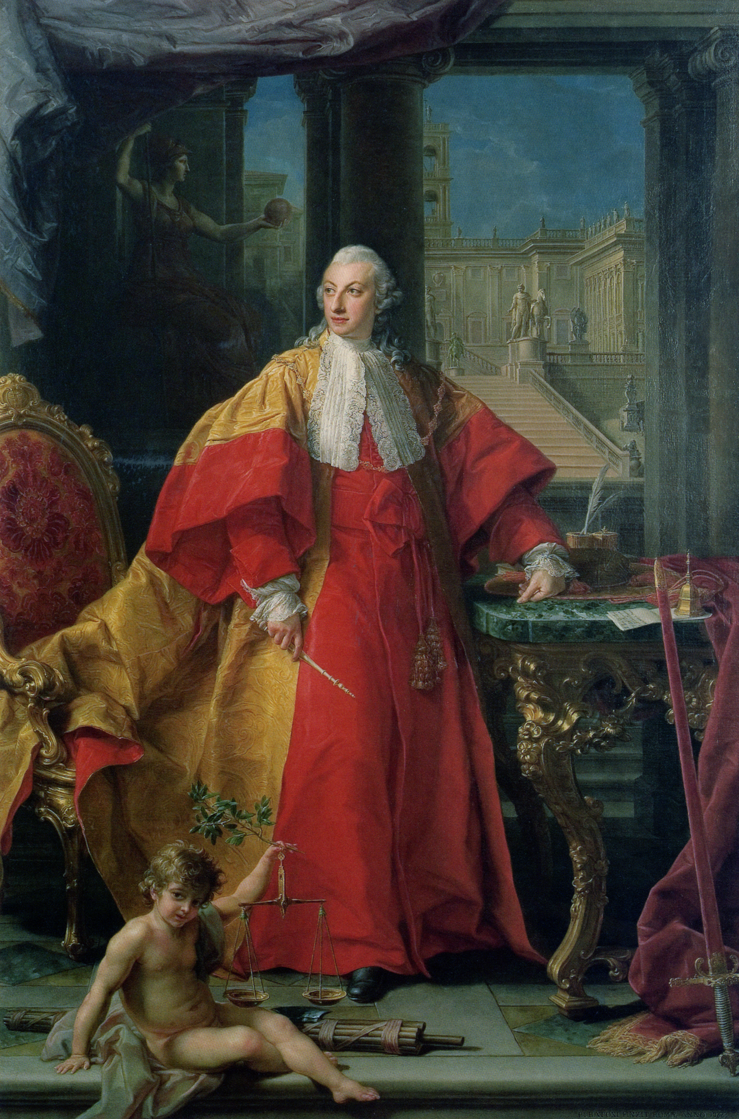 Depicted here in ceremonial costume is Prince Abbondio Rezzonico (1742-1810), a senator of Rome and the nephew of Pope Clement XIII.